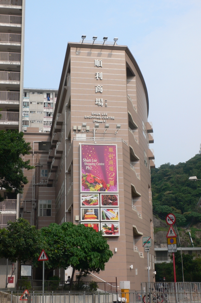 Shun Lee Estate Shopping Centre Phase II, Hong Kong